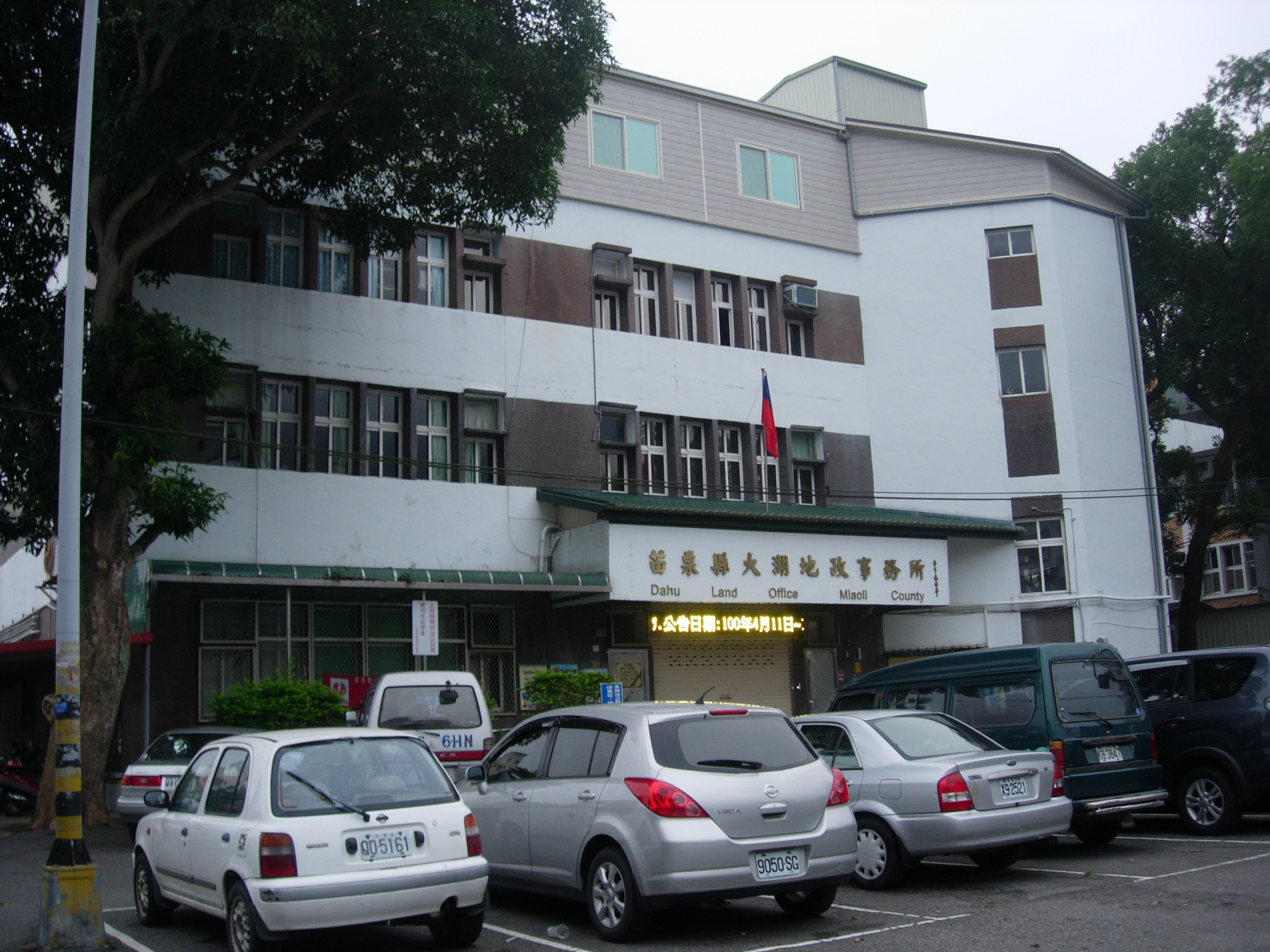 Dahu Land Office, Miaoli County